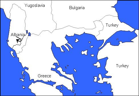 Commons:Category:Maps of Greece Commons:Category:World War II maps